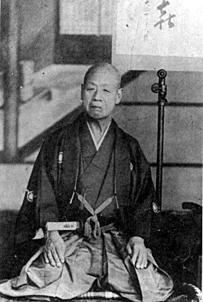 Photograph of Jodo teacher Shiraishii Hanjiro